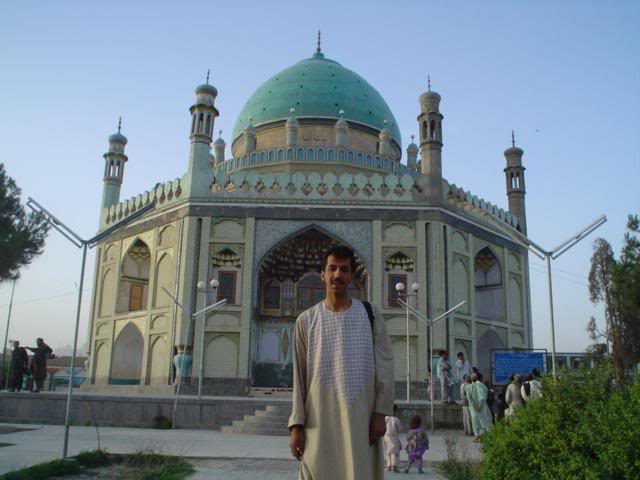 Mausoleum of Ahmad Shah Durrani, Ahmad Shah Baba